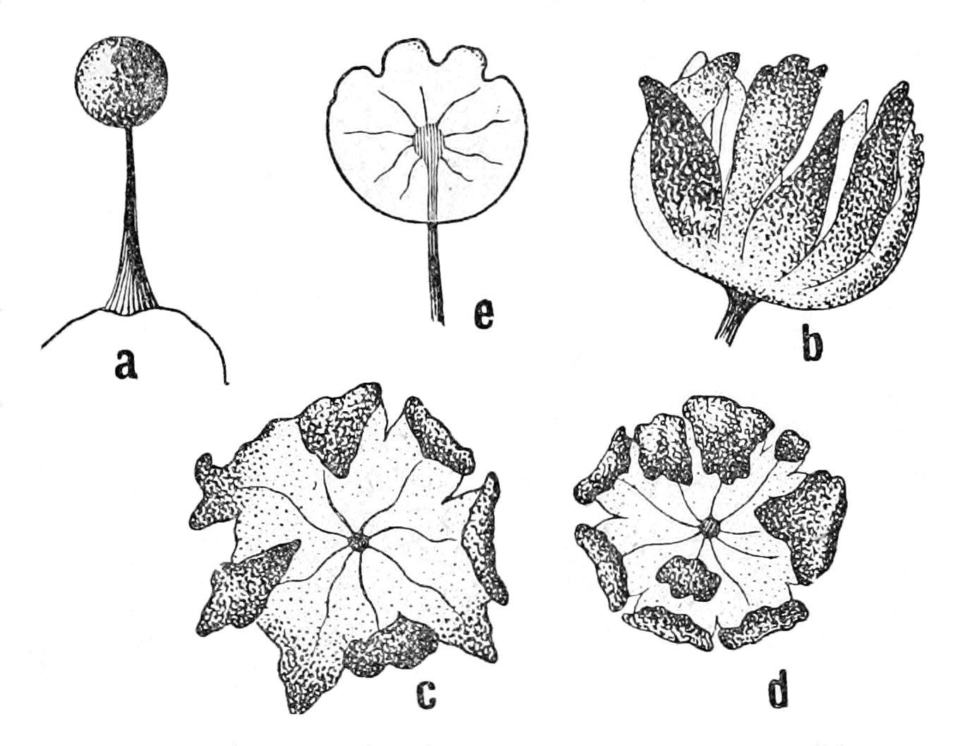 Various stages in the life cycle of the slime mold Barbeyella minutissima. A) Sporangium (80/1); b) through e) open sporangium; b) from the side; c) and d) from above (200/1); e) transparent peridium (150/1)